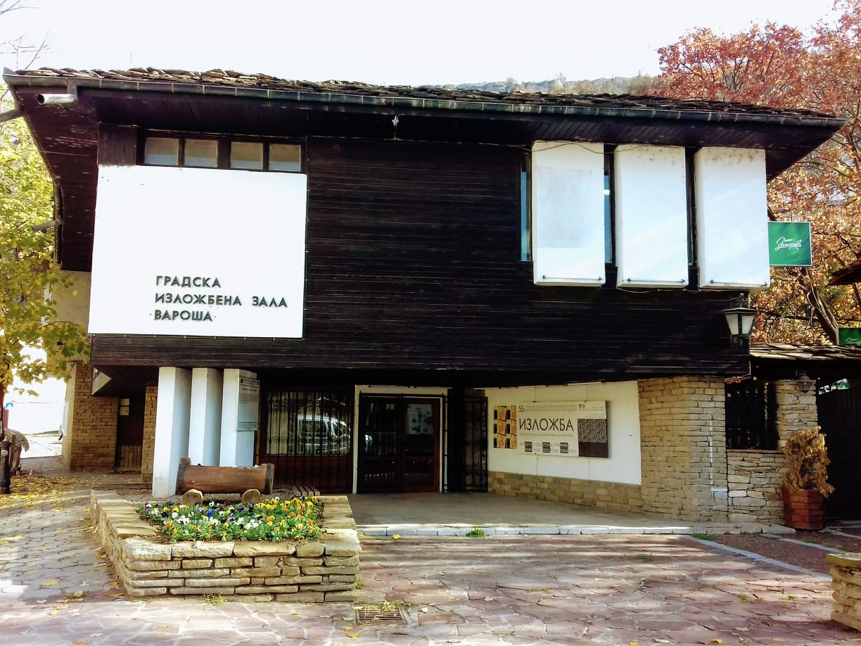 Art Gallery in Lovech, Bulgaria